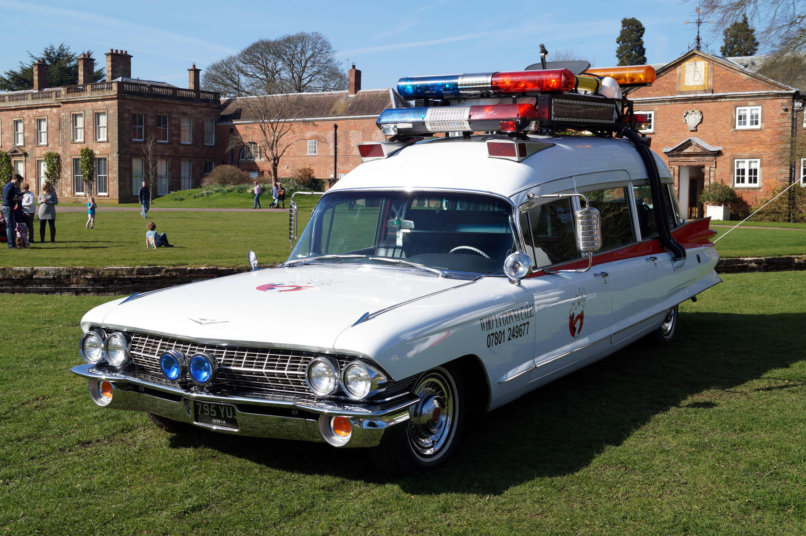 Ghostbusters Ectomobile - Cadillac Miller-Meteor. Weston Park Transport Show 2015.